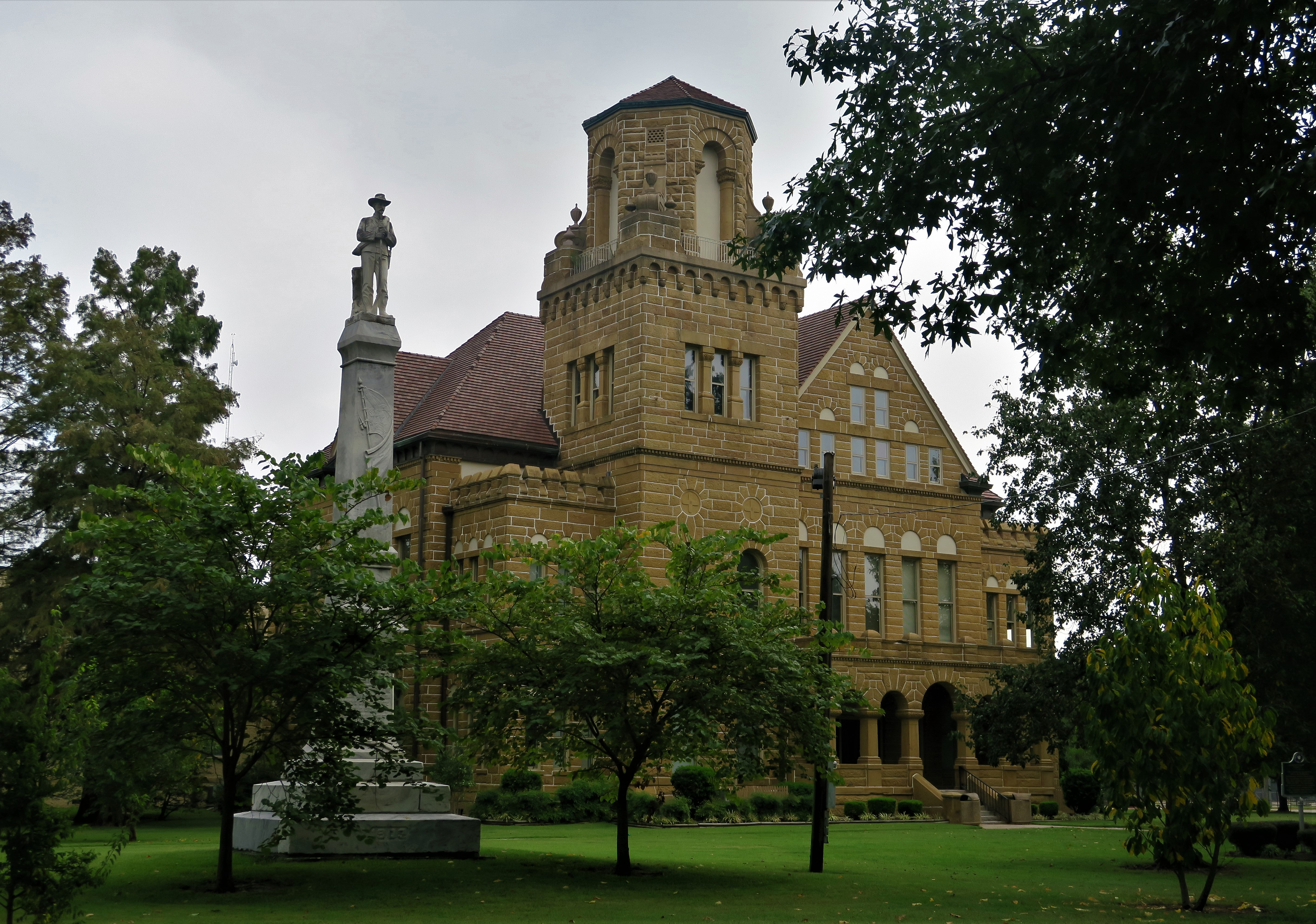 Washington County Courthouse (Mississippi)